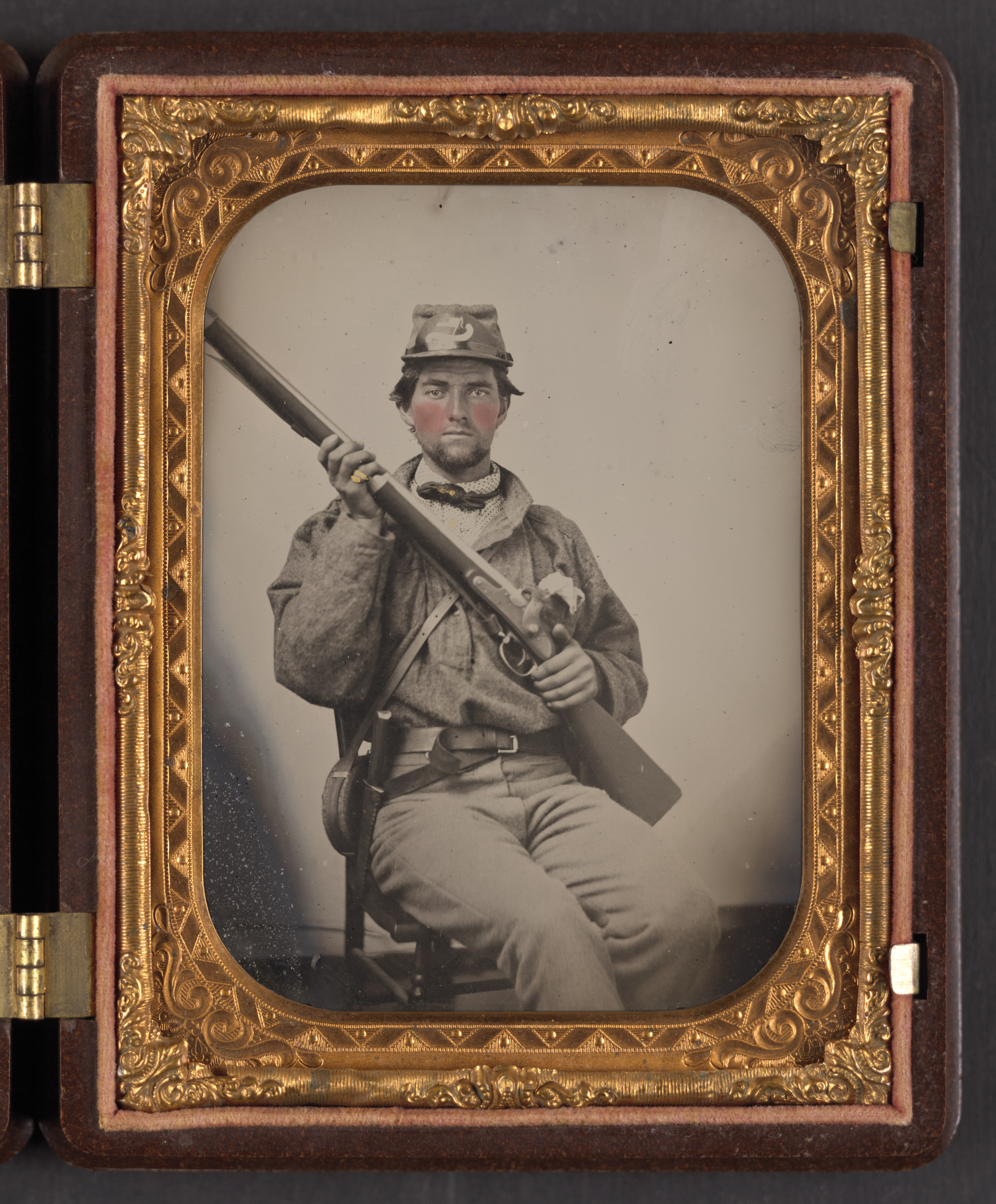 Title: Private George Hamilton Guinn of Co. A, 52nd Virginia Infantry Regiment, in uniform with musket, Bowie knive, and canteen Abstract/medium: 1 photograph : hand-colored ambrotype ; plate 108 x 82 mm (quarter plate format), case 125 x 101 mm.